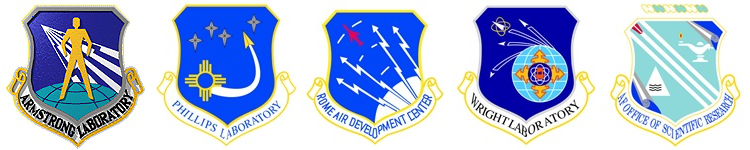 Emblems of the organizations which were merged to create the U.S. Air Force Research Laboratory.